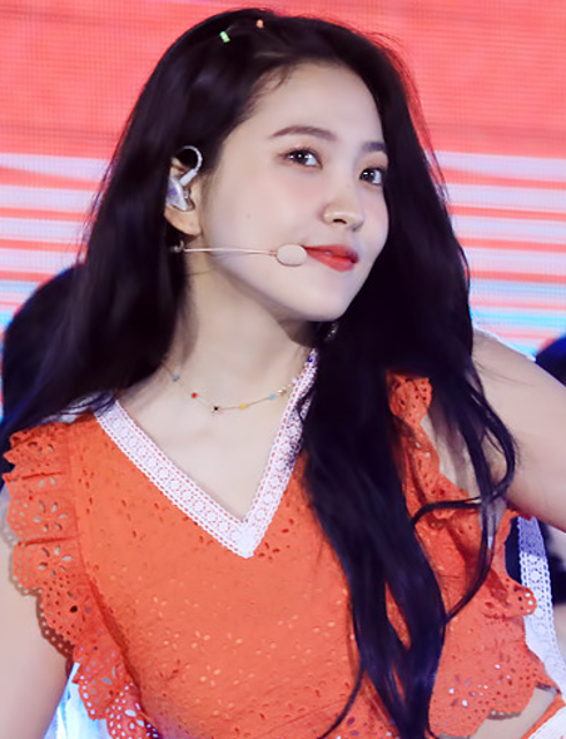 Kim Ye-ri at Dream Concert on May 18, 2019.